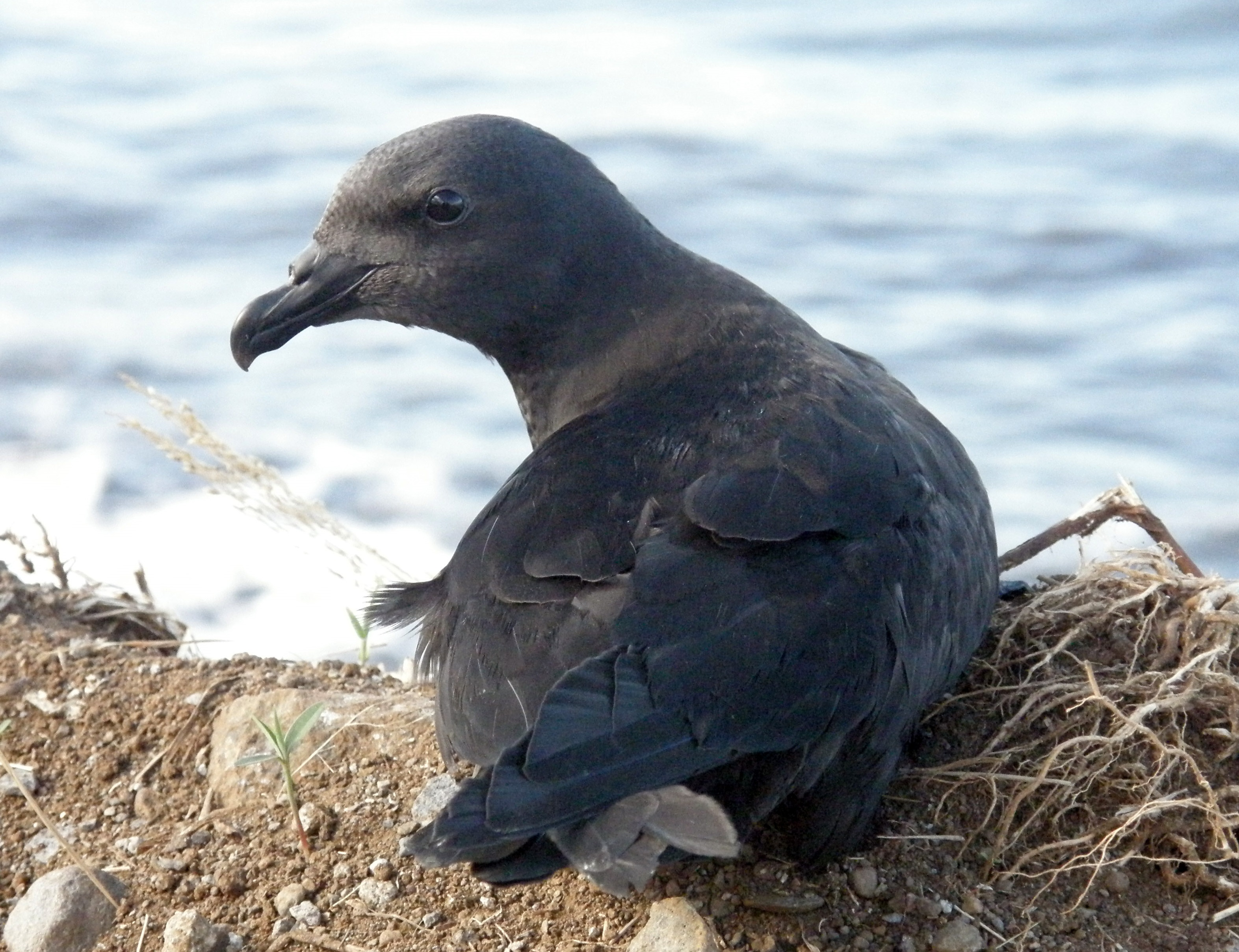 Mascarene Petrel (released bird)